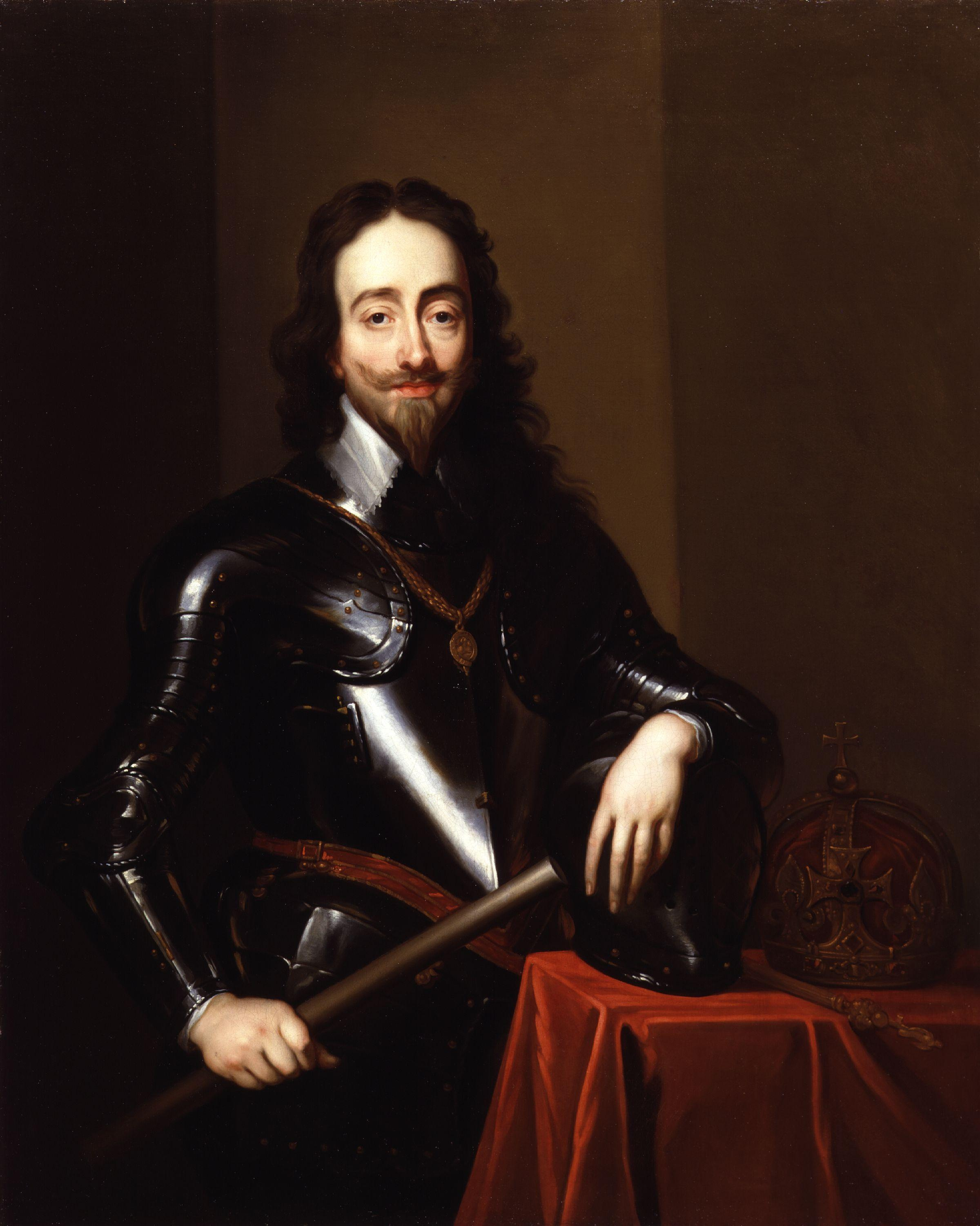 King Charles I, by Sir Anthony Van Dyck (died 1641). All images in this batch have been confirmed as author died before 1939 according to the official death date listed by the NPG.